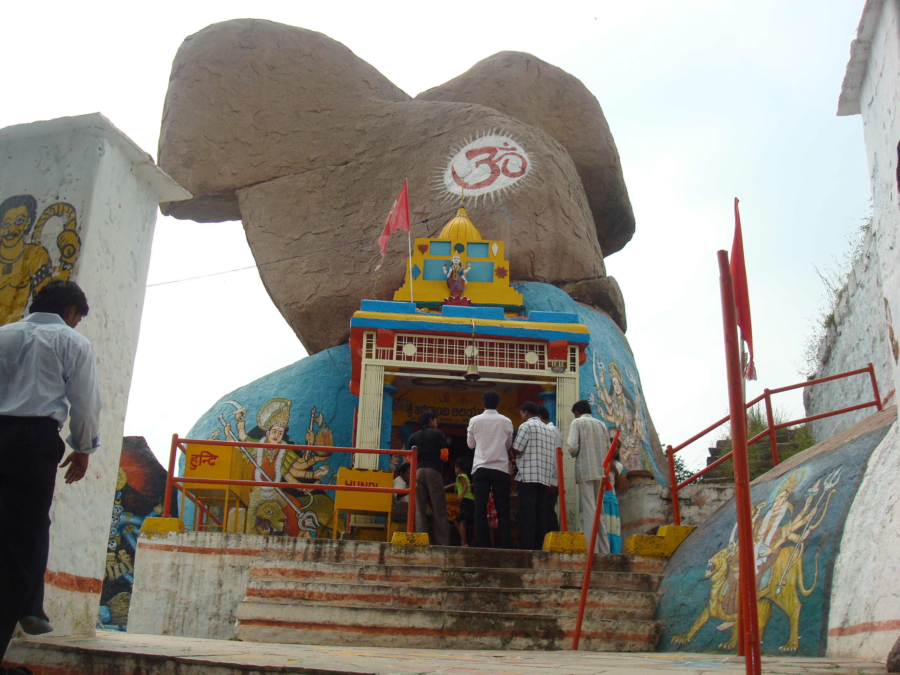 Mahankaali temple at Golconda, Hyderabad.